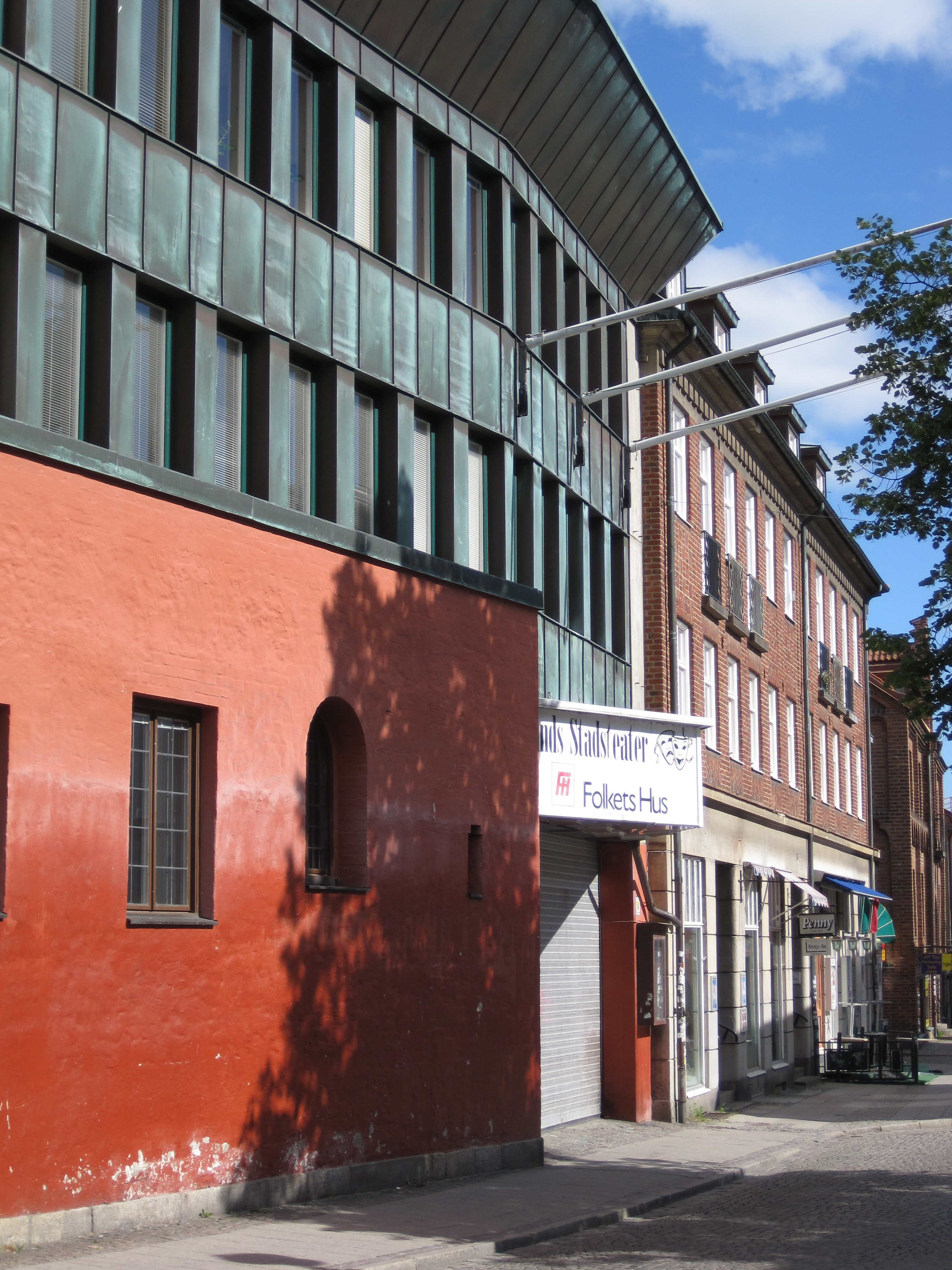 The entrance of Lunds Stadsteater (Lund's City Theatre) at Kiliansgatan in Lund, Sweden. The red-coloured part of the building are the the remnants of a medieval house known as Kanikresidenset.